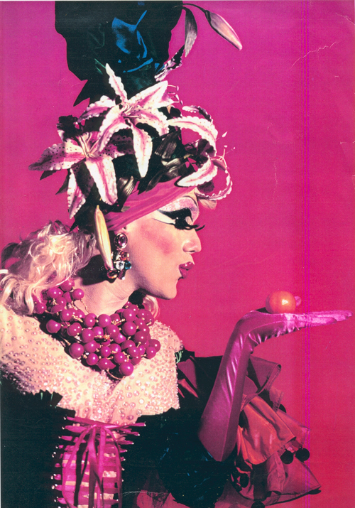 Agnetha Immergeil